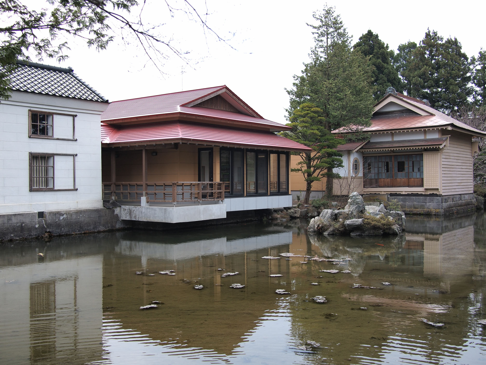 Umemura Garden, Yakumo, Hokkaido, Japan